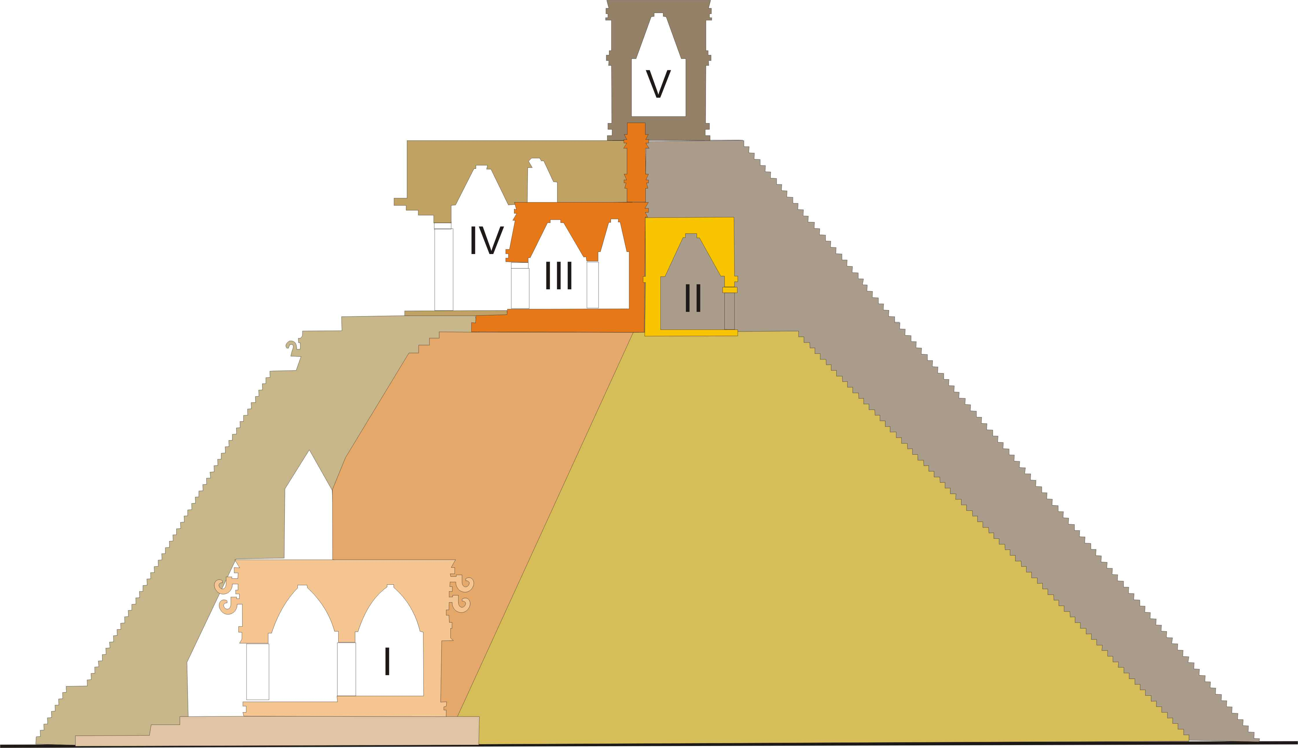 Uxmal, Yucatan, Mexico: Adivino, section east-west.